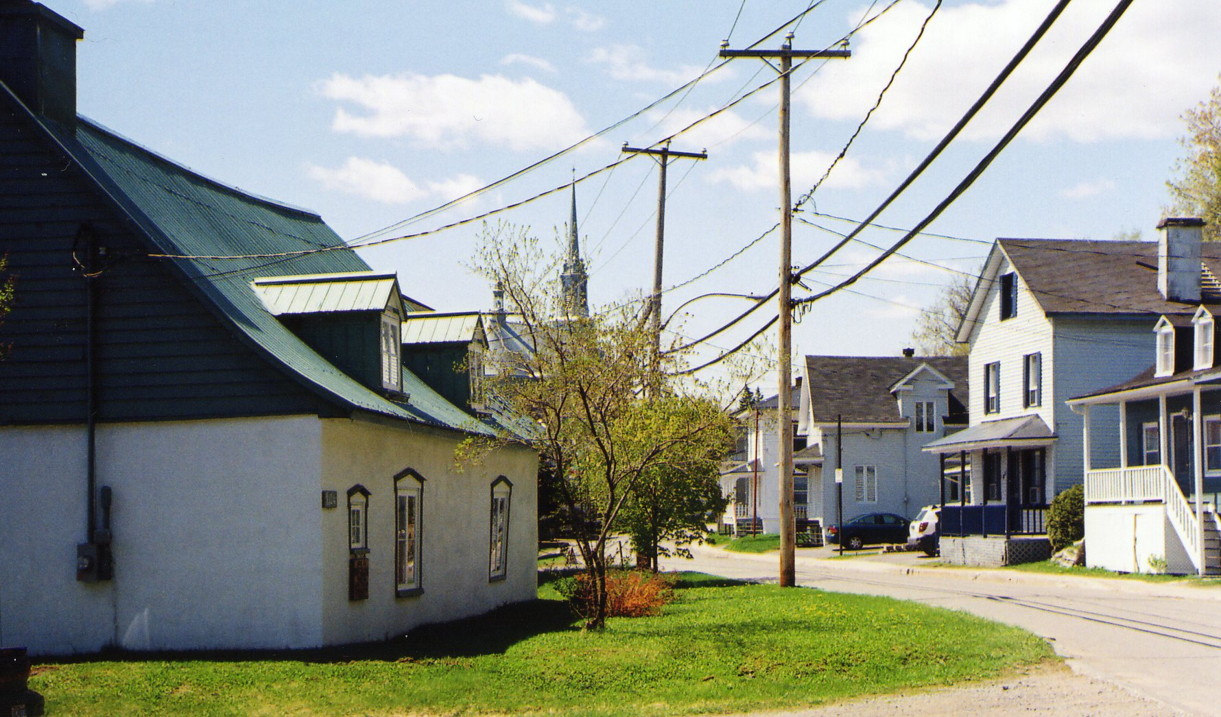 Scanned digital image from a photograph taken by me, User:Acjelen, of a street in Chateau-Richer, Quebec